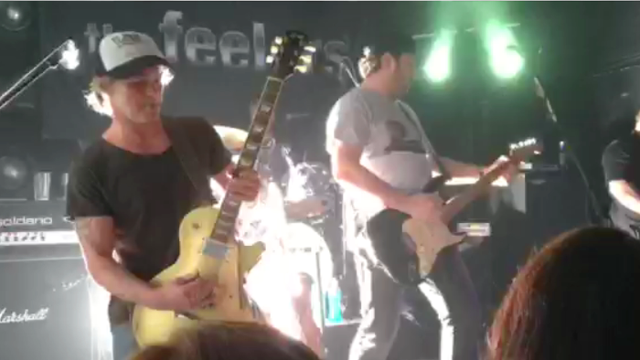 On stage.